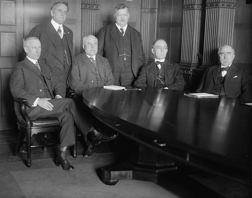 The Railway Wage Commission was created on January 18, 1918 by the Director General Of Railroads. Seated James Harry Covington; Franklin Knight Lane; Charles Caldwell McChord; and William Russell Willcox. Standing William A. Ryan; and Frederick William Lehmann.